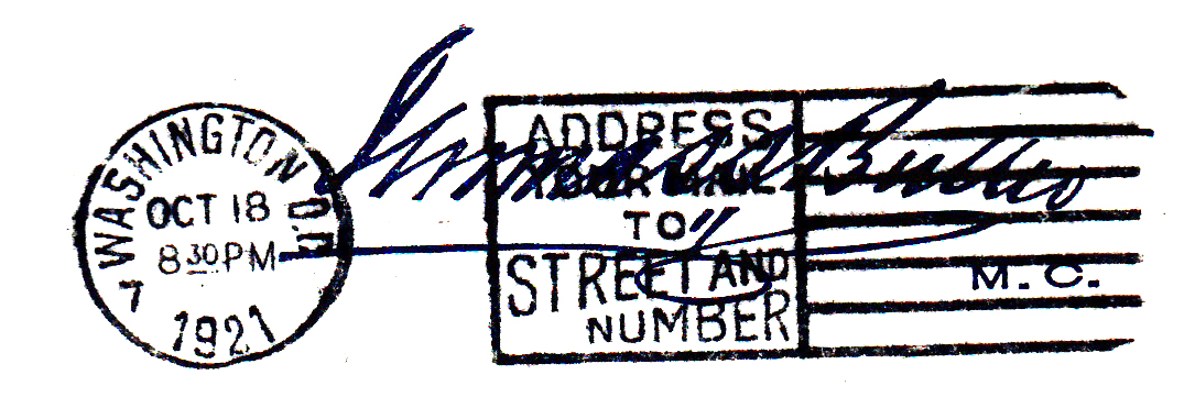 Printed "Congressional Frank" of Thomas S. Butler, MC (PA) with Washington, DC, machine cancel (October 18, 1921) The Cooper Collection of U.S. Postal History